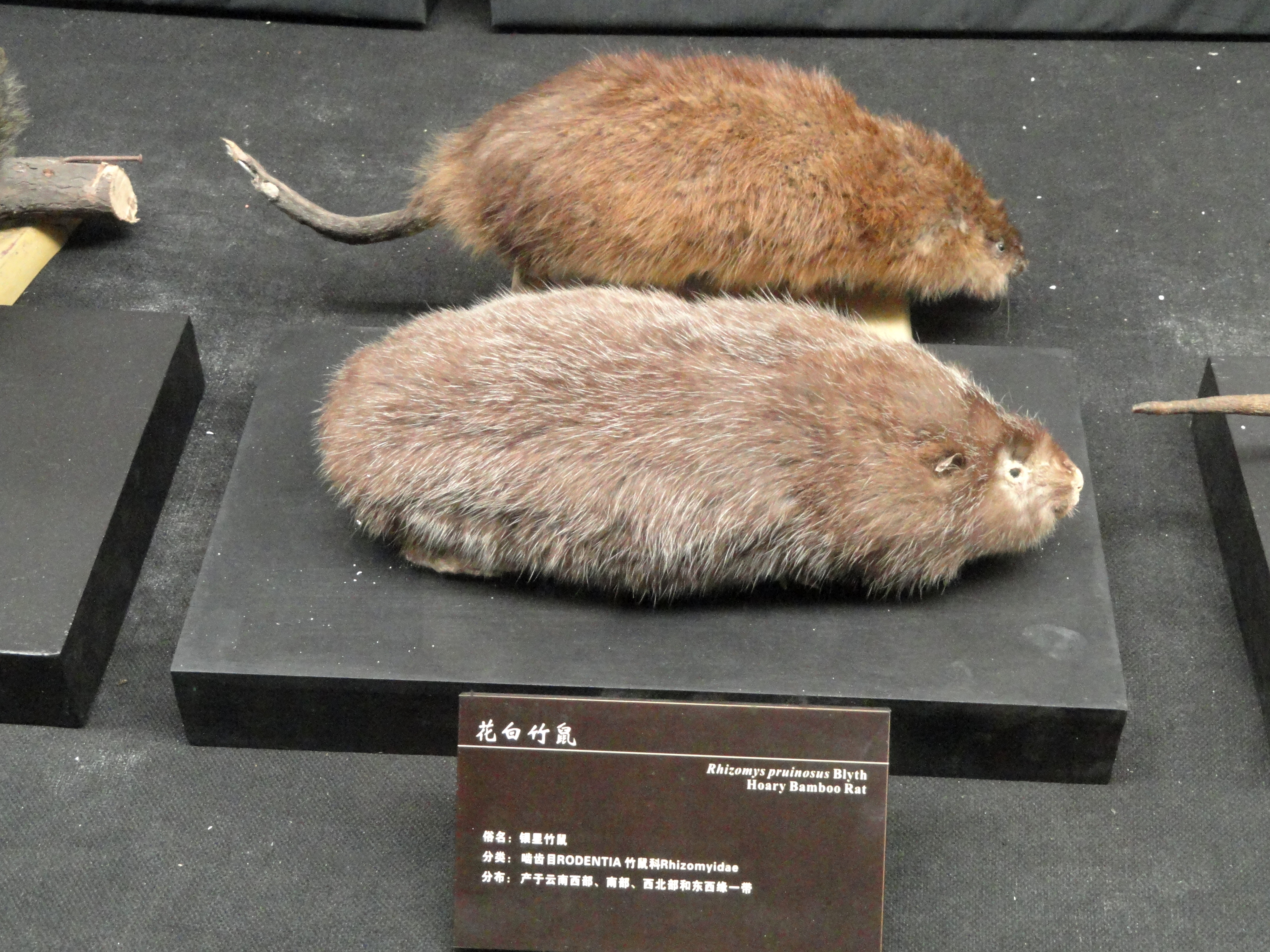 Taxidermy exhibit in the Kunming Natural History Museum of Zoology (昆明动物博物馆), Kunming, Yunnan, China.